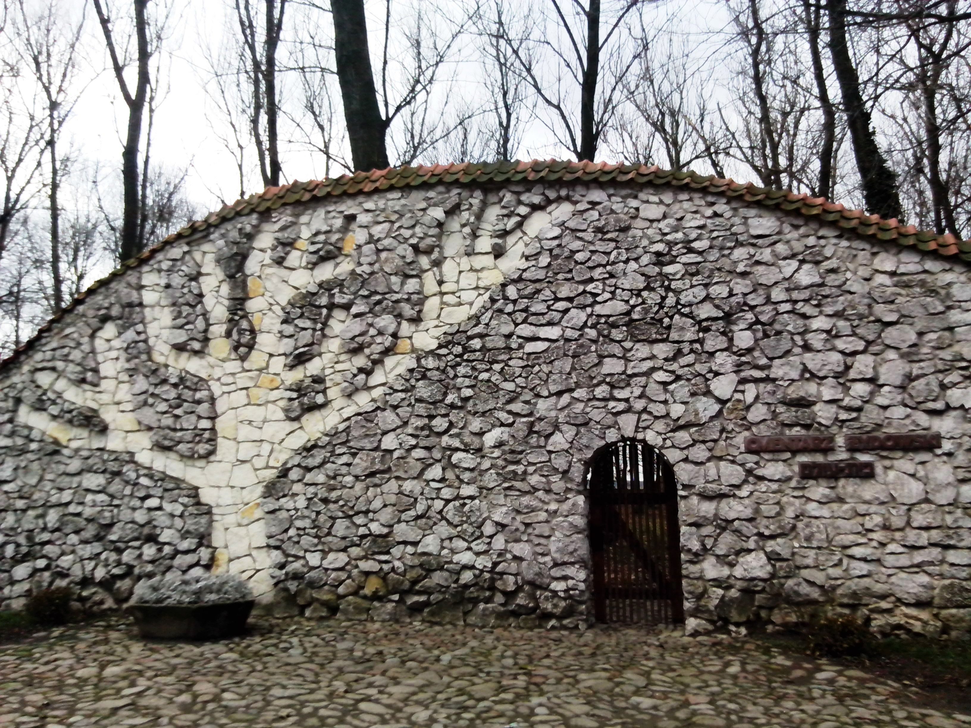 Entrance gate at the Jewish cemetery in Bełżyce